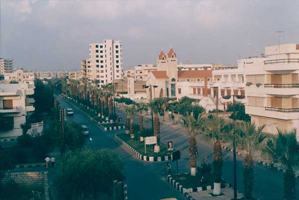 Alhamrat Street